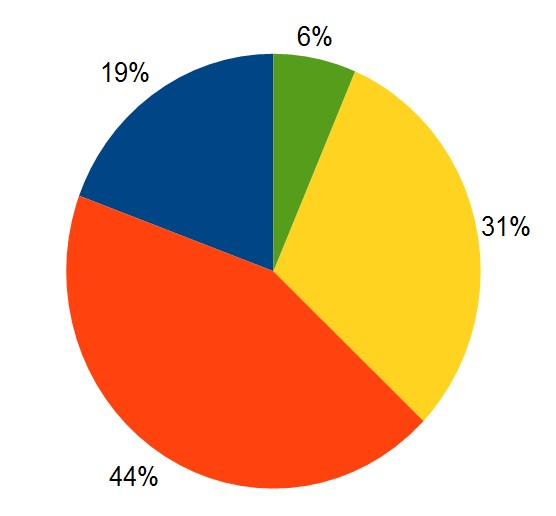 A standard pie chart made in OpenOffice Calc by Sylvanmoon